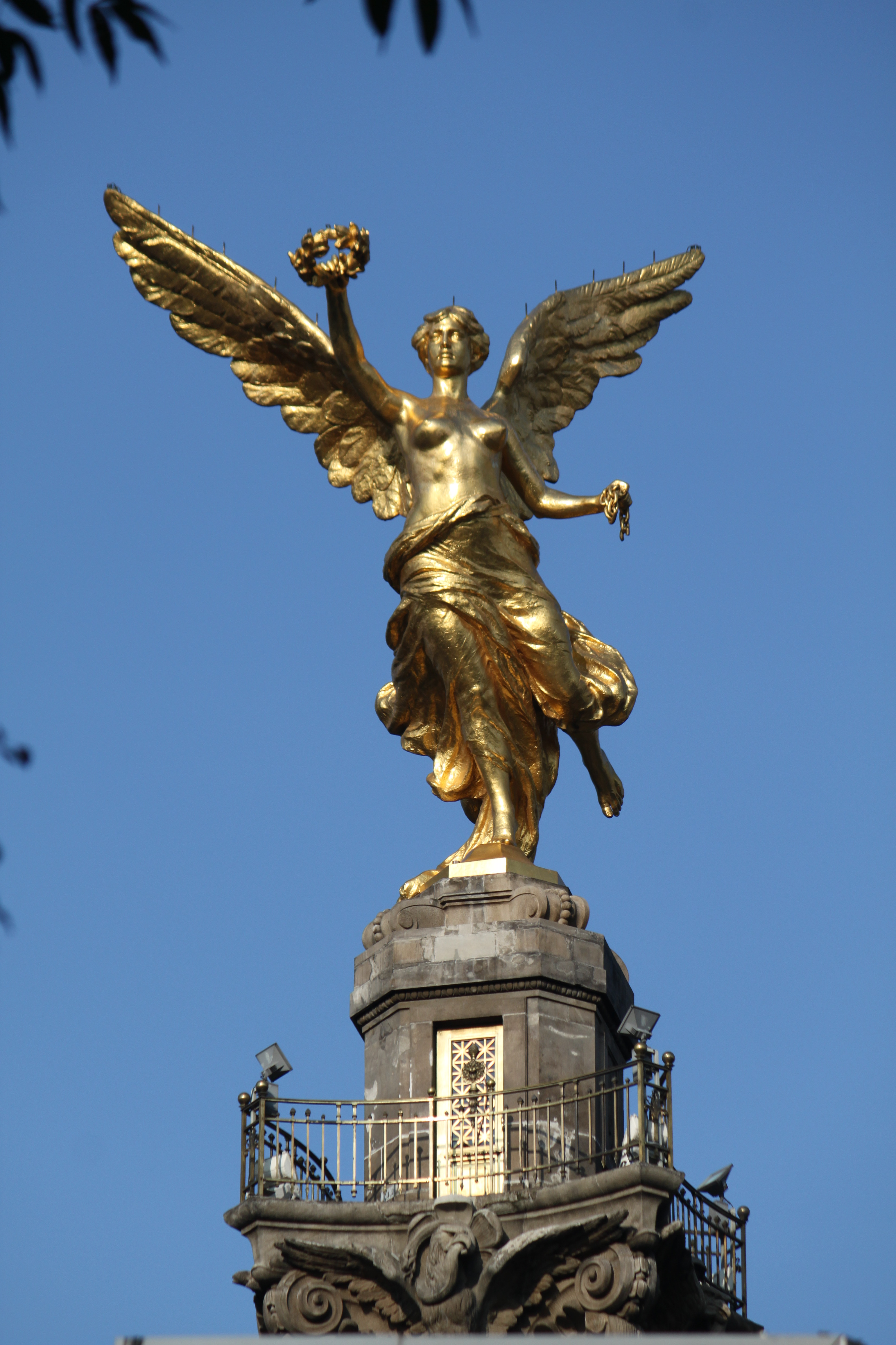 Paseo de la Reforma, Mexico City.. Complete indexed photo collection at .